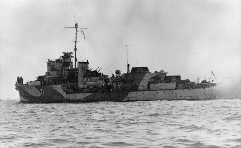 Photograph of British Hunt class destroyer escort HMS Calpe (L71).